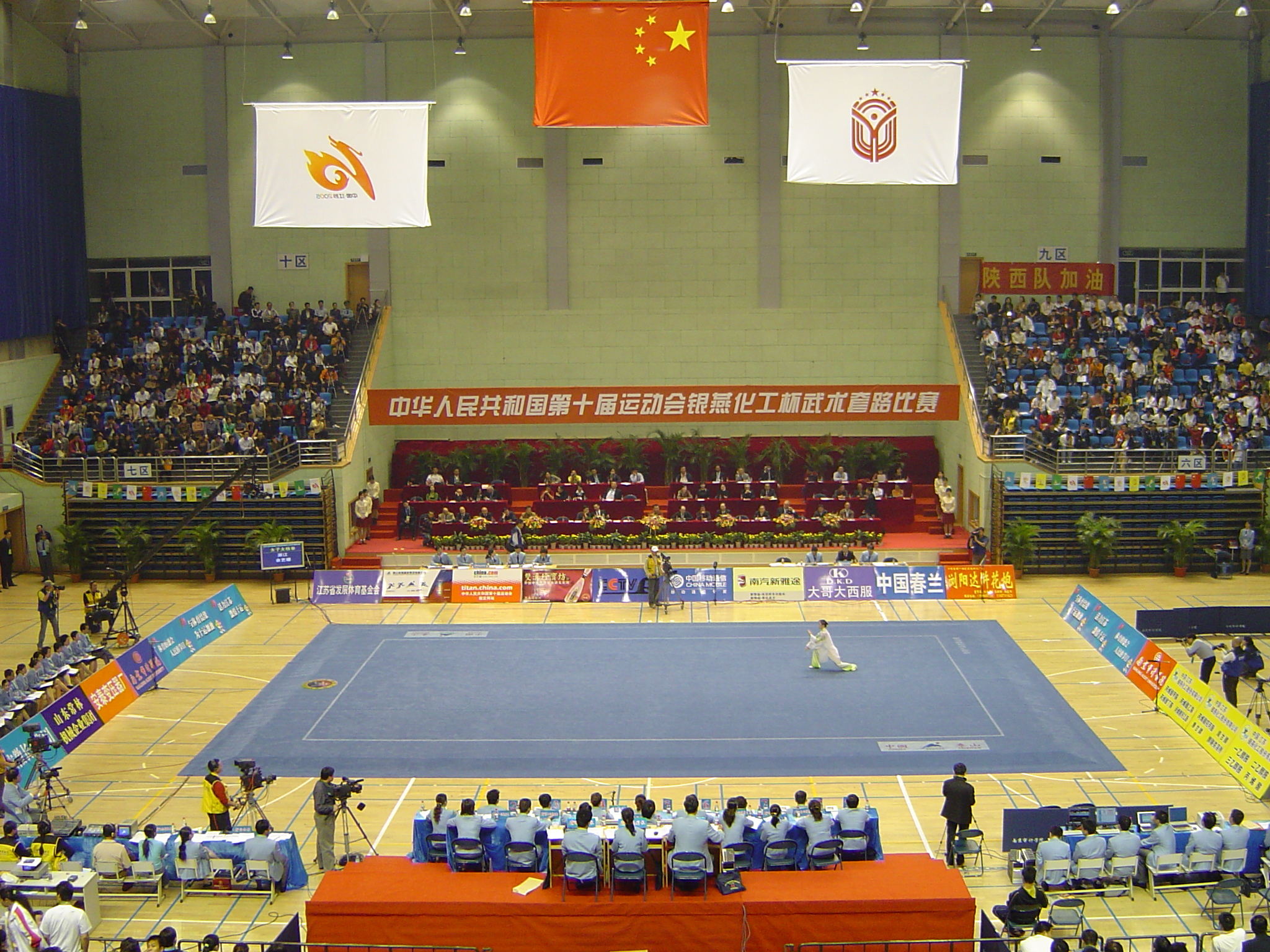 Event floor of the 10th All China Games.